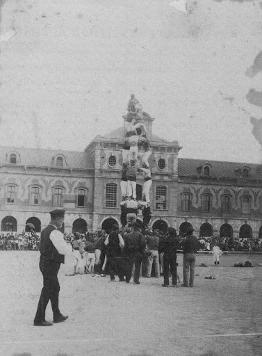 Human tower named 3 de 7, by the Colla Nova dels Xiquets de Valls, during a competition held in 1902 in front of the Parliament of Catalonia